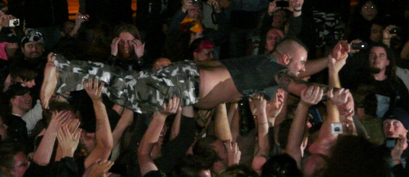 Somewhere between Miami and Cozumel. Singer Joakim Brodén of Sabaton, on his way to the pool (in which he was thrown on his own request)